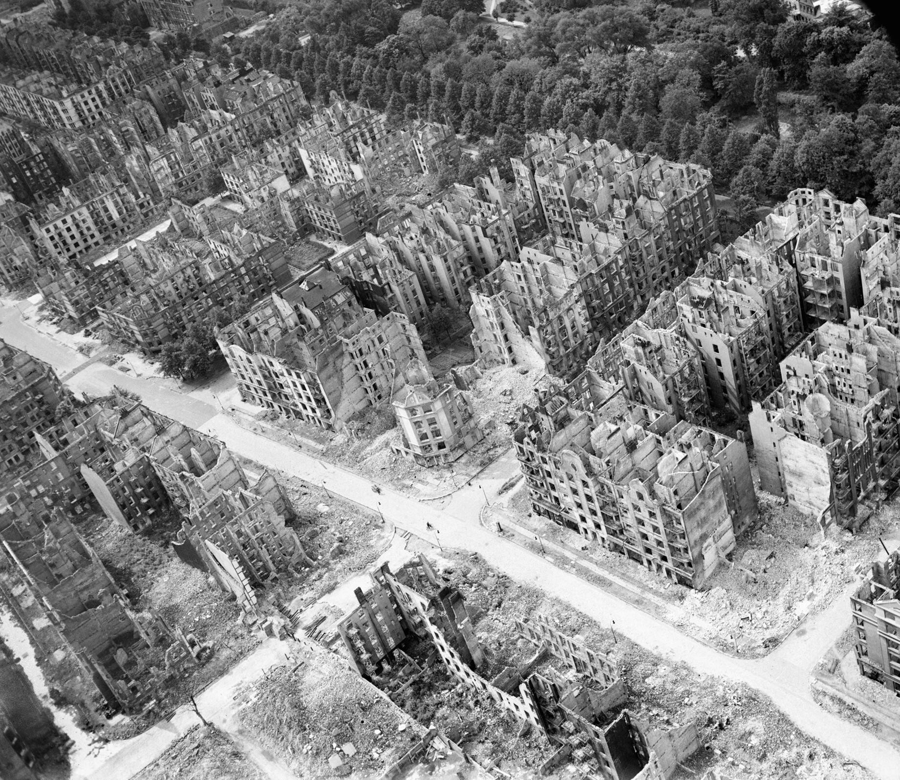 Royal Air Force Bomber Command, 1942-1945. Oblique aerial view of ruined residential and commercial buildings south of the Eilbektal Park (seen at upper right) in the Eilbek district of Hamburg, Germany. These were among the 16,000 multi-storeyed apartment buildings destroyed by the firestorm which developed during the raid by Bomber Command on the night of 27/28 July 1943 (Operation GOMORRAH). The road running diagonally from upper left to lower right is Eilbeker Weg, crossed by Rückertstraße.